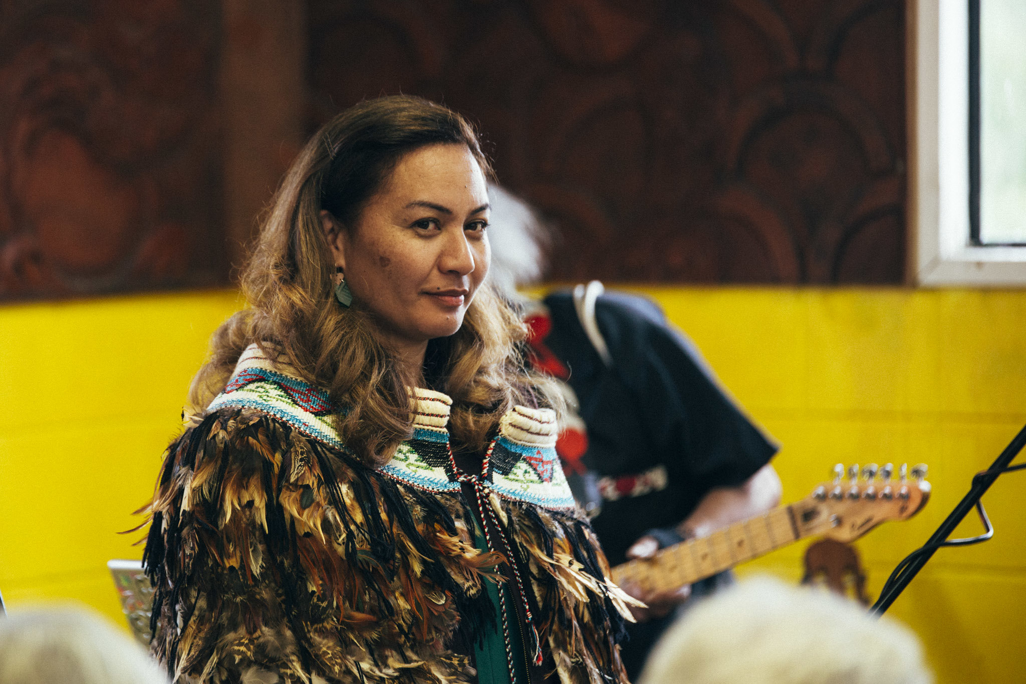 Marama Davidson at her marae - Matai Ara Nui in the Hokianga, celebrating her appointment of co-leader in 2018